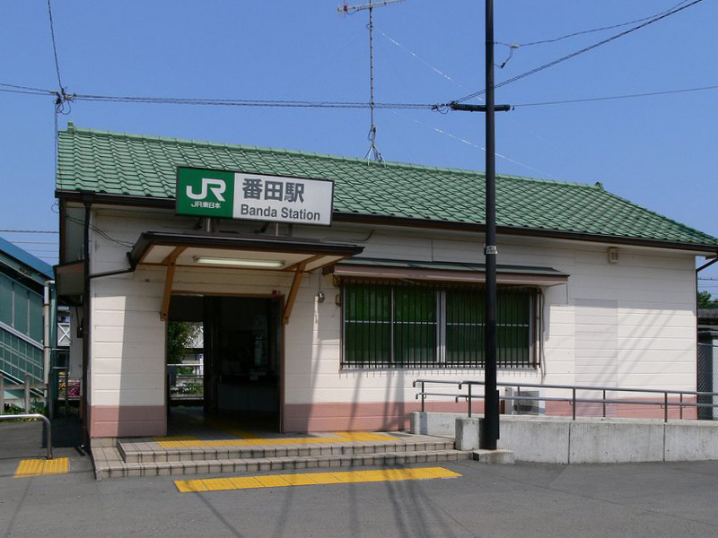 Banda station on the Sagami Line in Kanagawa Prefecture, Japan